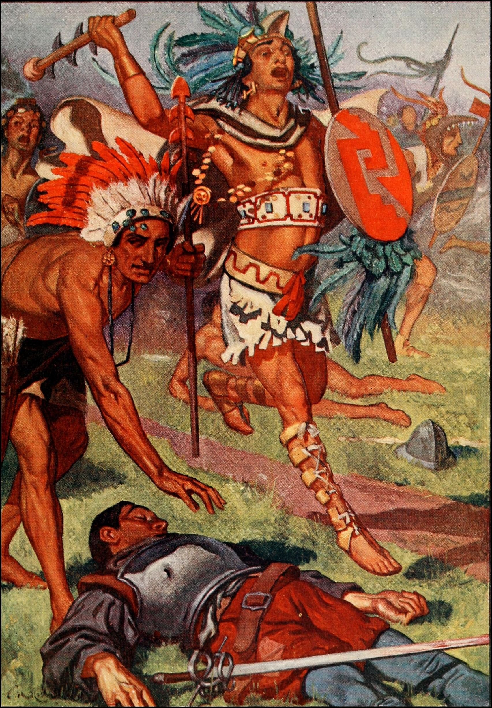 Aztecs continue their assault against the conquistadors